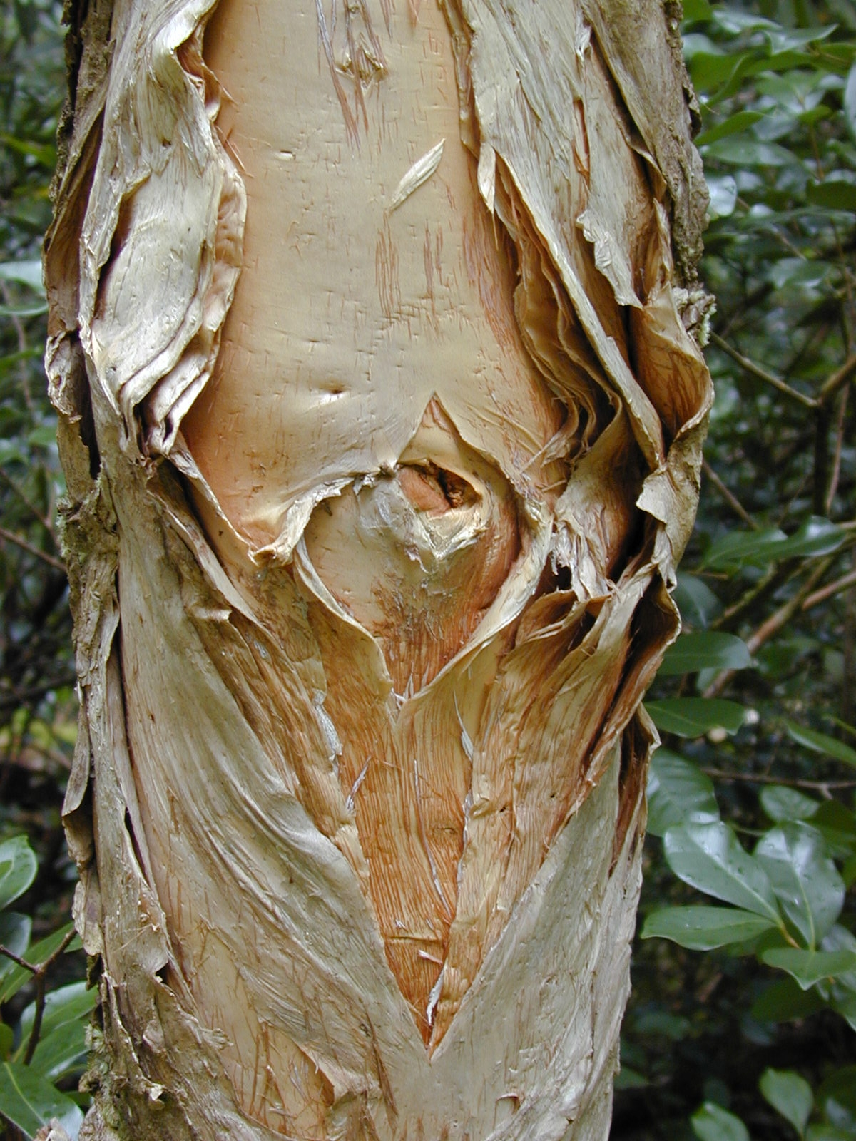 Melaleuca quinquenervia (papery trunk). Location: Maui, Wahinepee